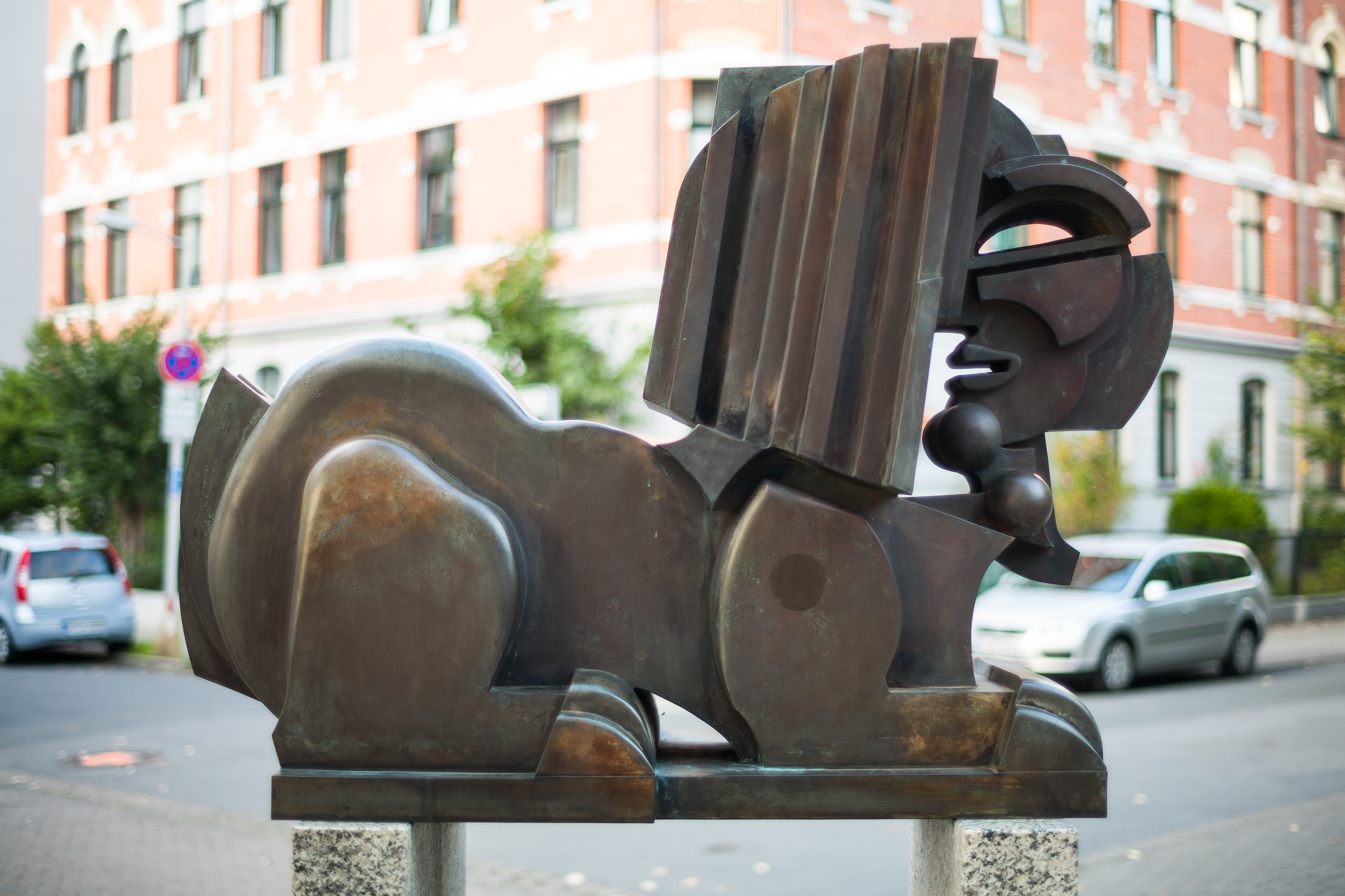 Sculpture "Doehrener Sphinx" by WP Eberhard Eggers located at Fiedelerplatz square in Doehren district of Hanover, Germany.